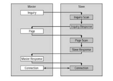 procedura uspostavljanja konekcije